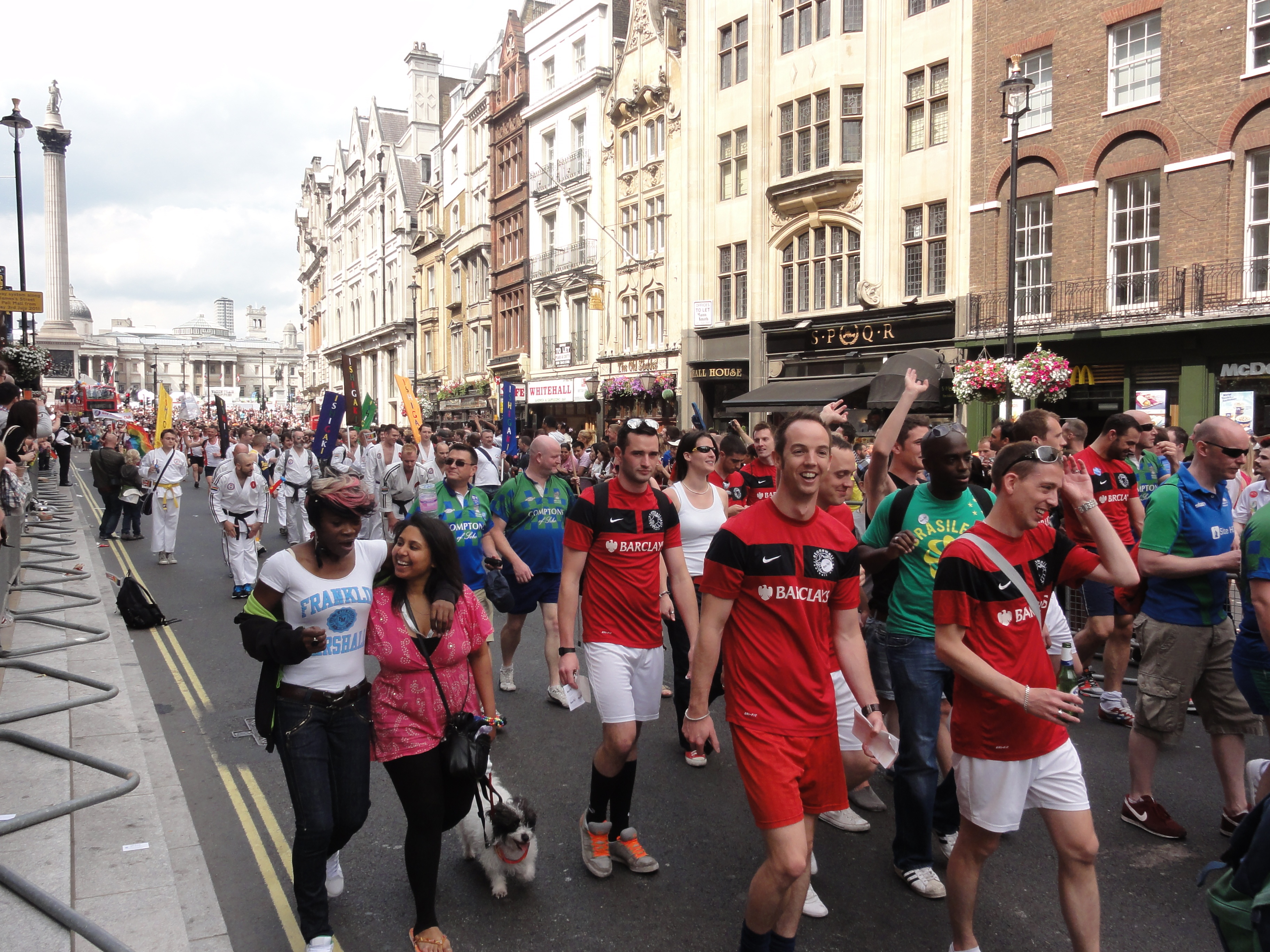 Pride London 2011, near Whitehall.